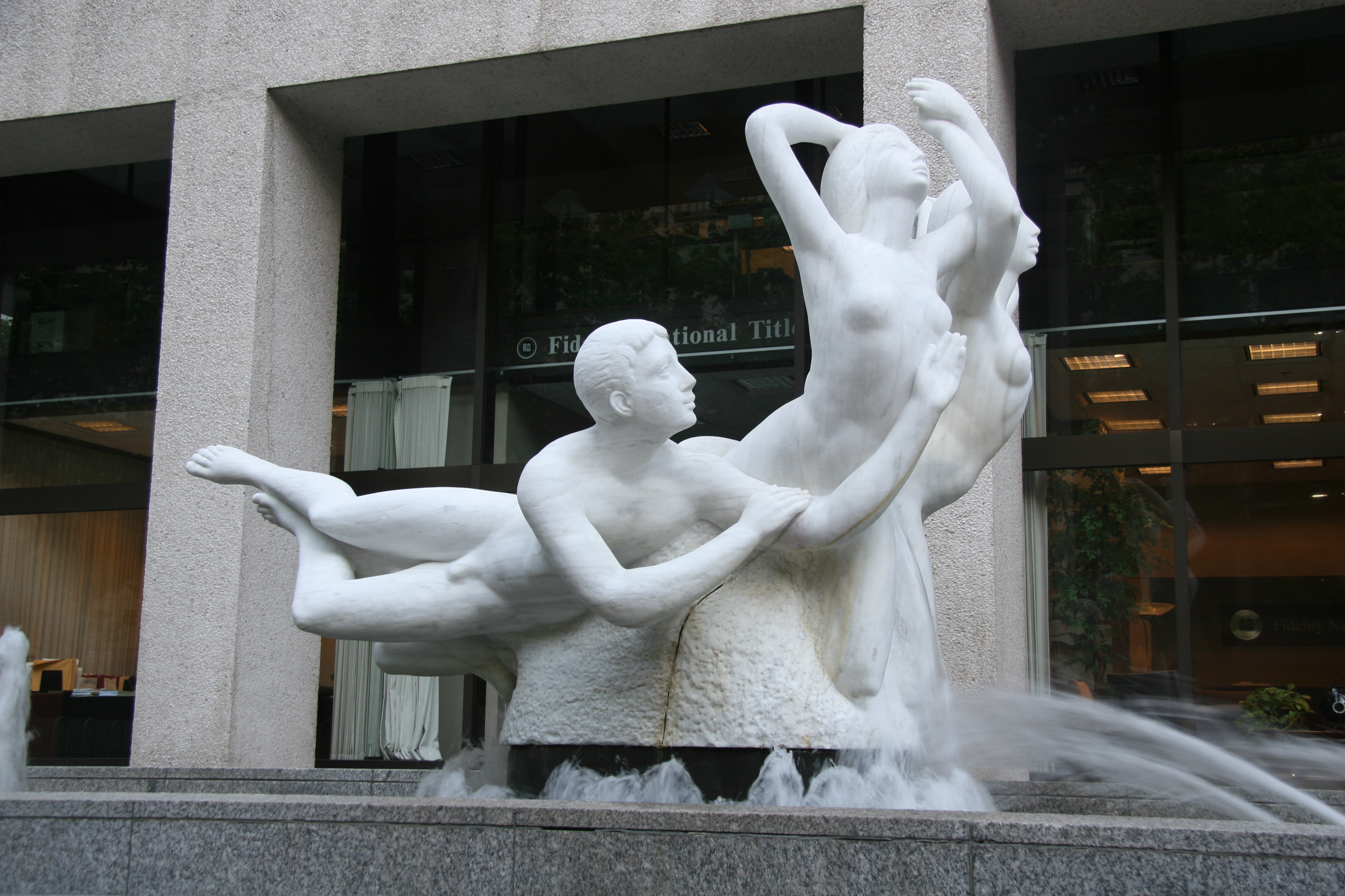 The Quest sculpture in Portland, Oregon, U.S.; by Count Alexander von Svoboda (born 1929)